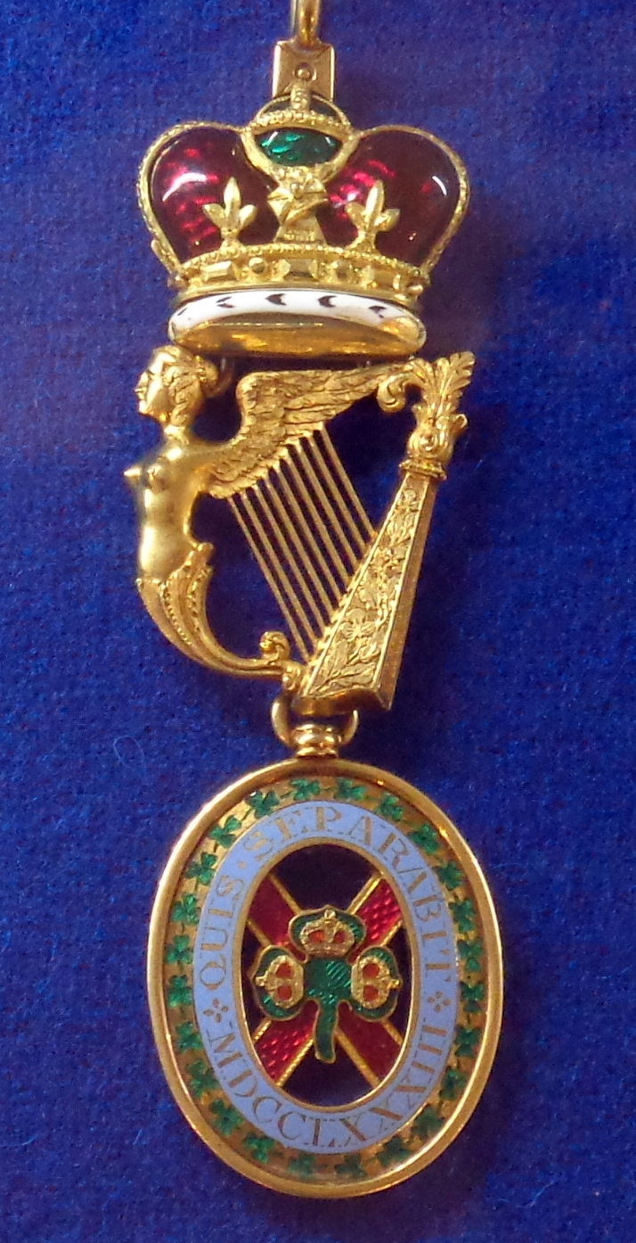 Order of Saint Patrick, badge, 1860-1880. United Kingdom. The exhibition of the Tallinn Museum of Orders of Knighthood, Estonia.